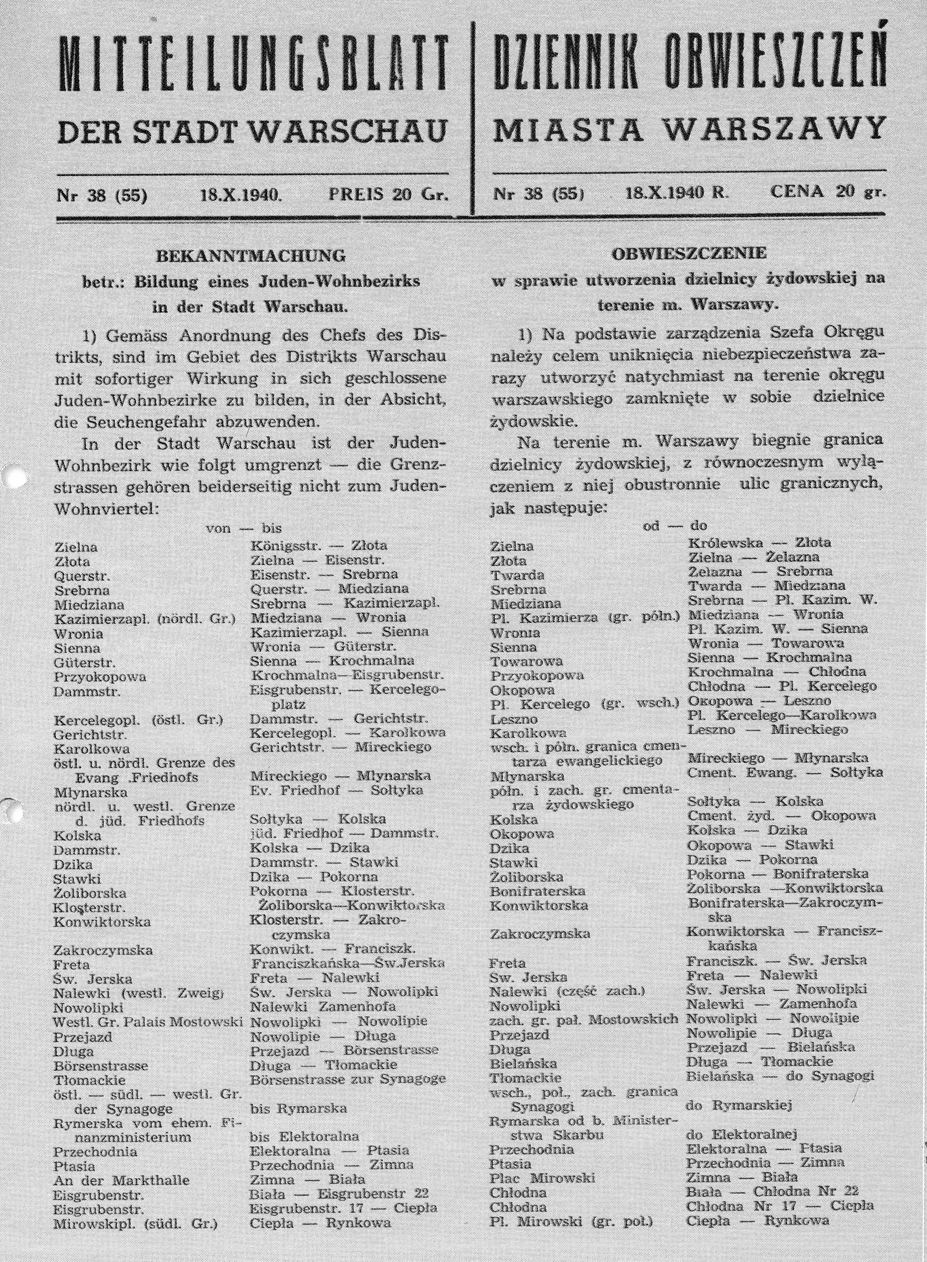 Journal of Decrees of the City of Warsaw with an announcement about establishing the Jewish district in Warsaw